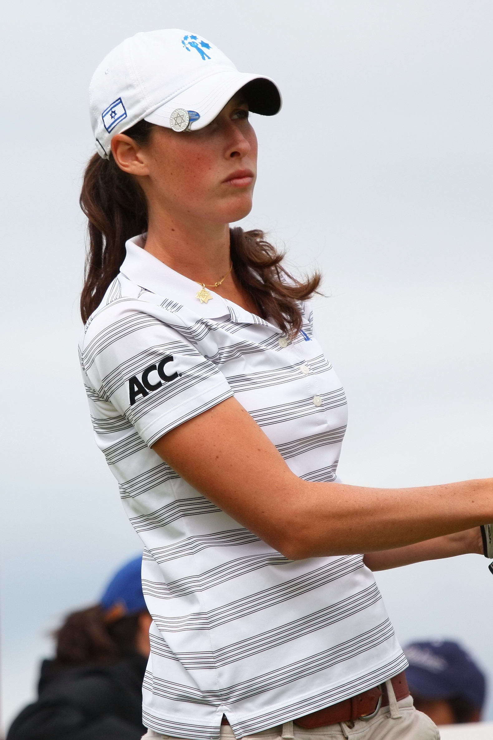 ST ANDREWS, SCOTLAND – JULY 31: Laetitia Beck of Israel tees off on the 15th hole during final practice round of 2013 Ricoh Women's British Open held at St Andrews Old Course on July 31, 2013 in St Andrews, Scotland. (Photo by Wojciech Migda)